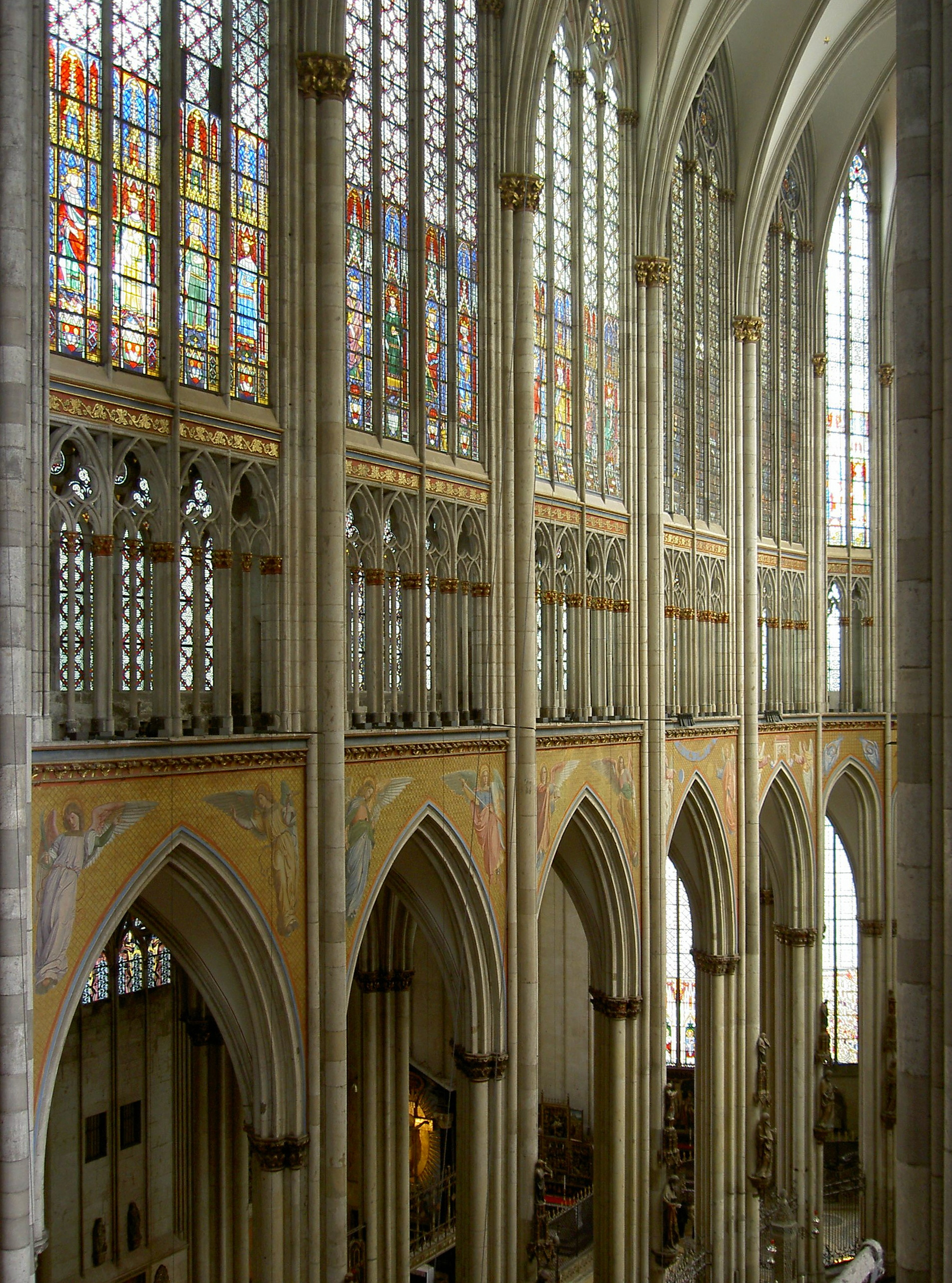 Cologne Cathedral: north side of the choir showing the triforium